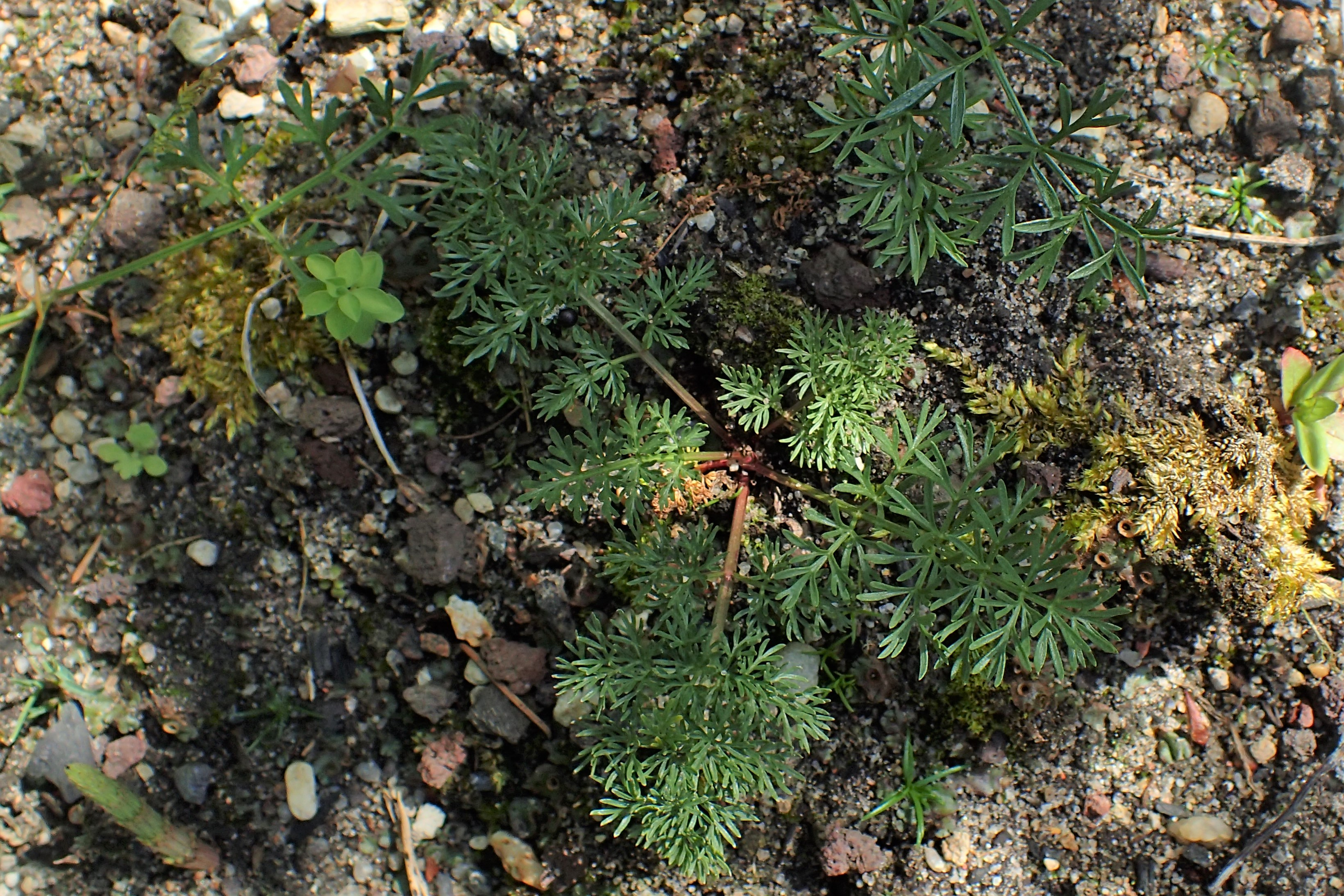 Ligusticum mutellina, young plant, in the Botanischer Garten, Berlin-Dahlem